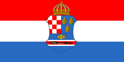 Triune Kingdom of Dalmatia, Croatia and Slavonia 1848